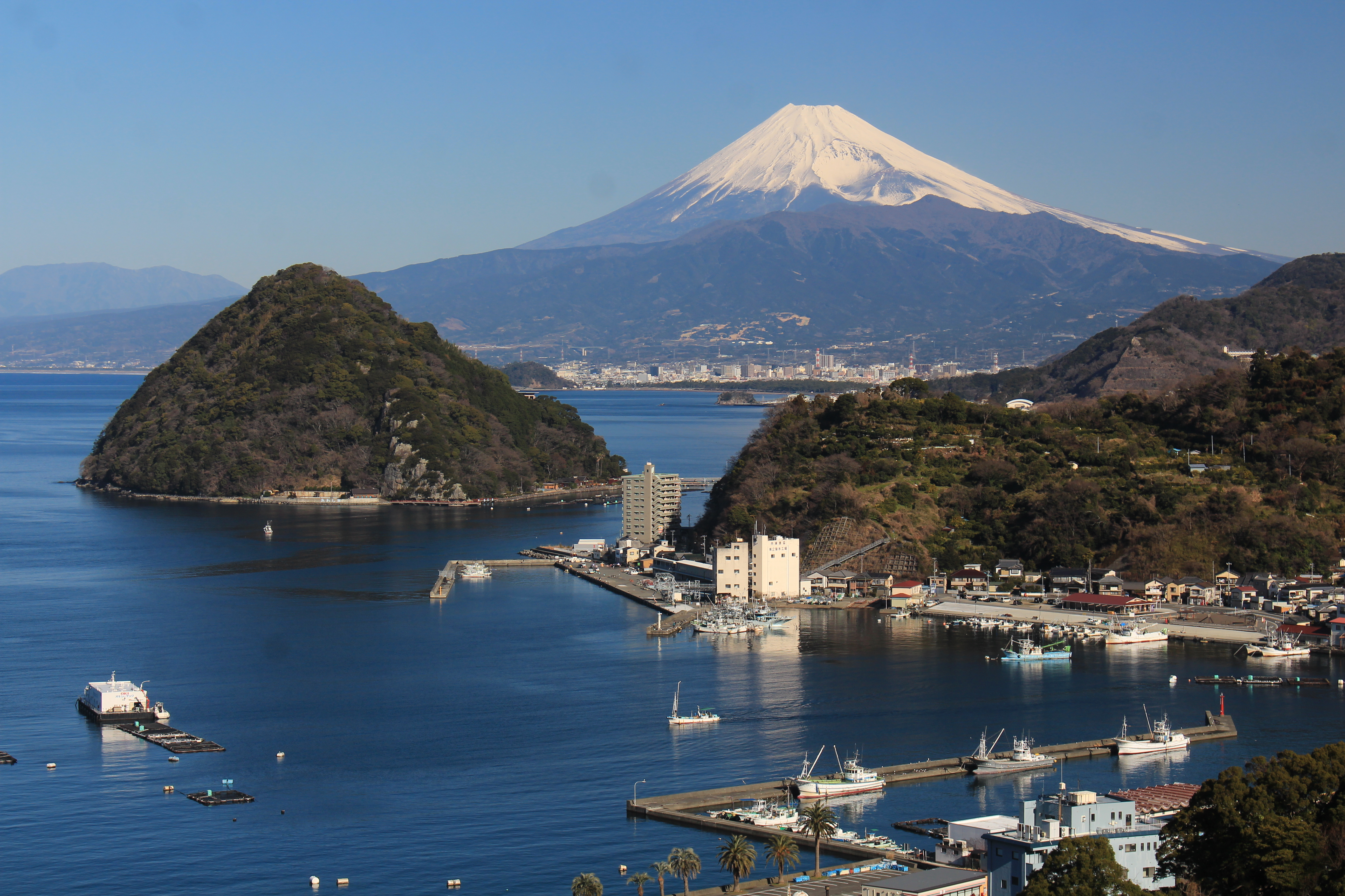 Awa Island and Mount Fuji seen from Mount Hottanjō, in Numazu, Shizuoka prefecture, Japan.